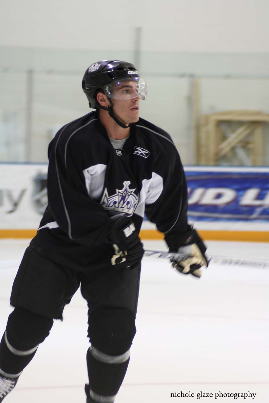 Canadian ice hockey player Mike Cammalleri